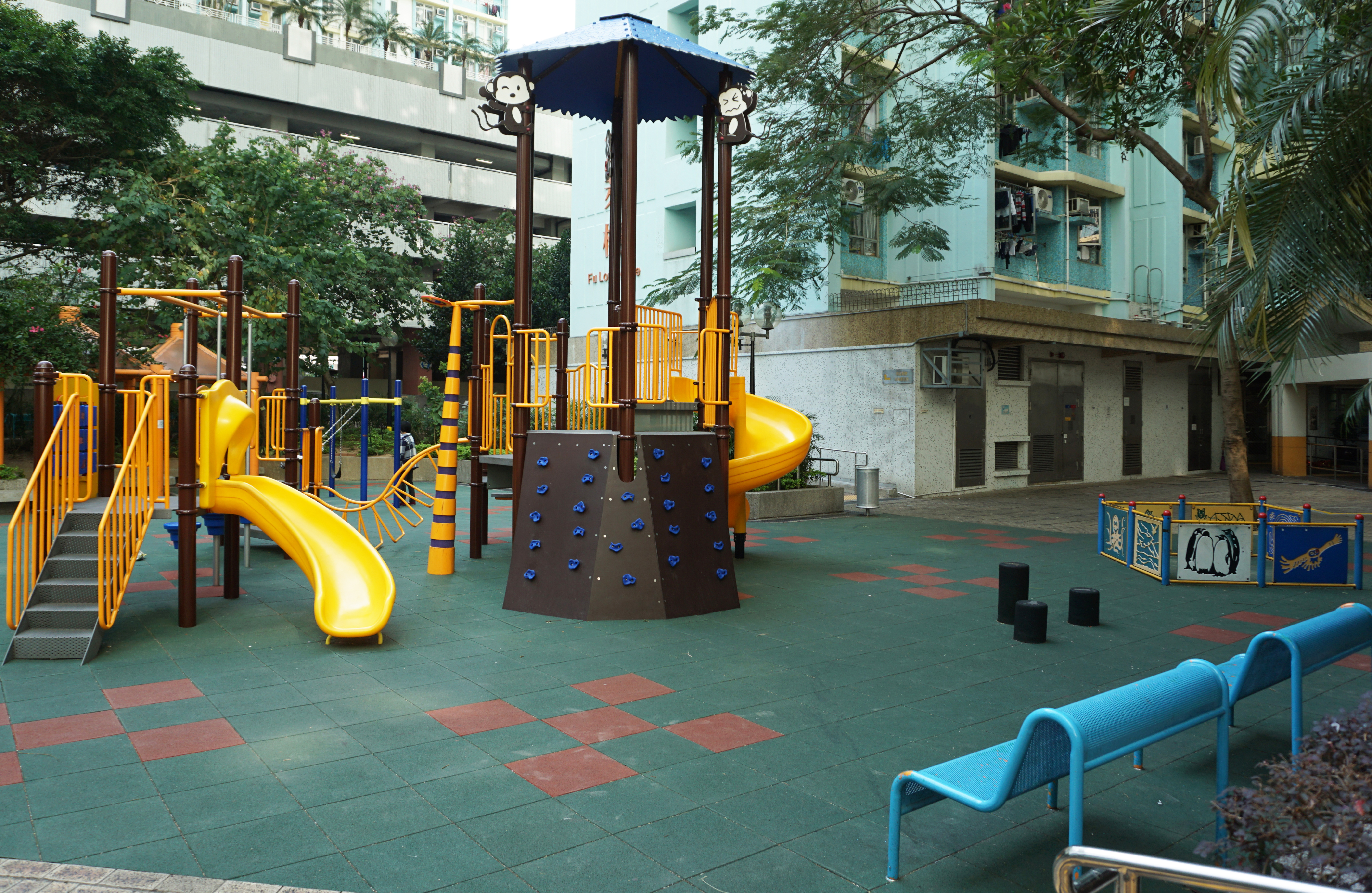 Fu Cheong Estate in Sham Shui Po, Hong Kong.